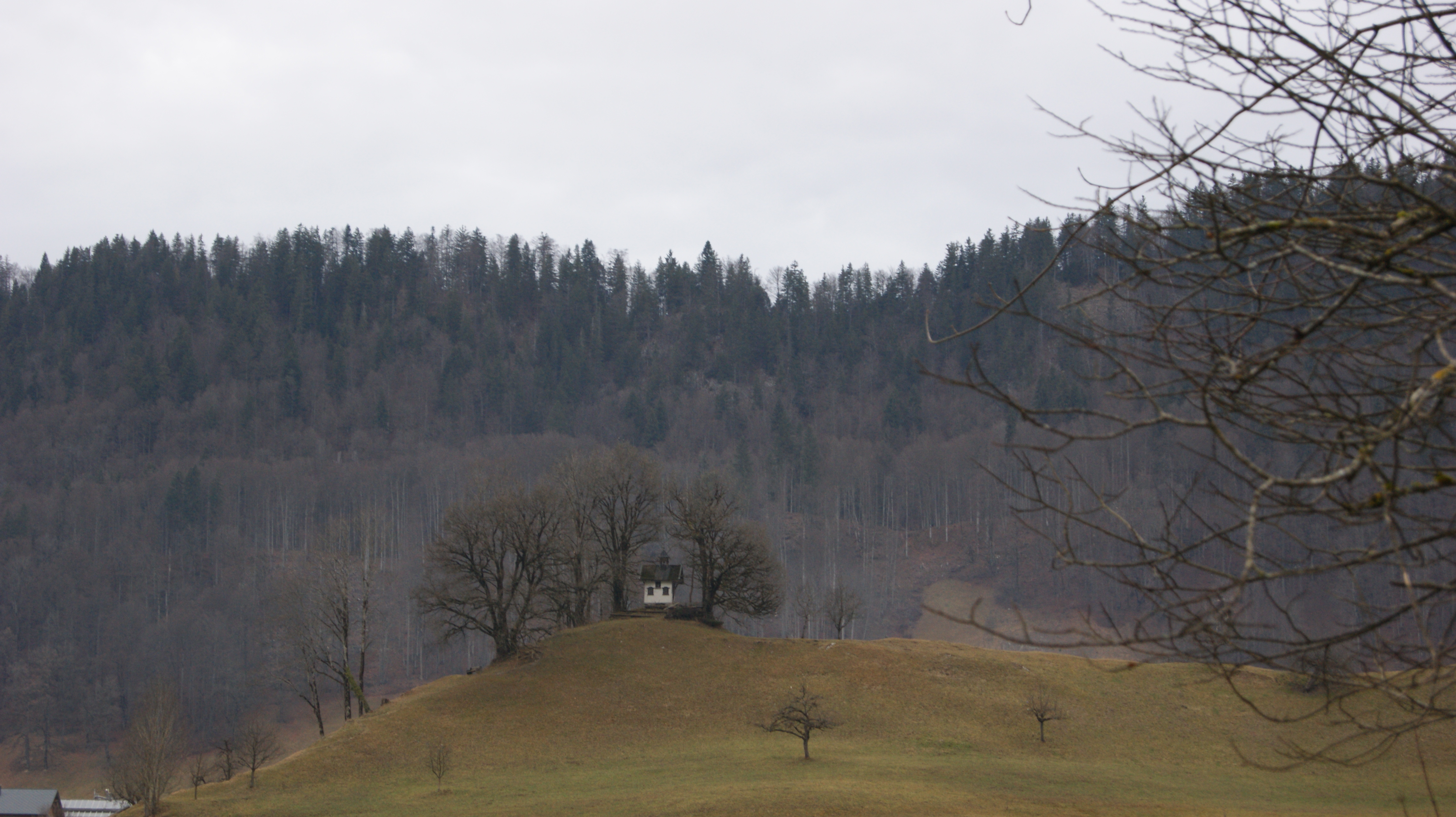 The "Bildbuehl" chapel is located in the district of "Bildbuehl" in Bizau, Vorarlberg, Austria, on an elevation of about 710 masl, and was built in the 17th century on the basis of a vow built.